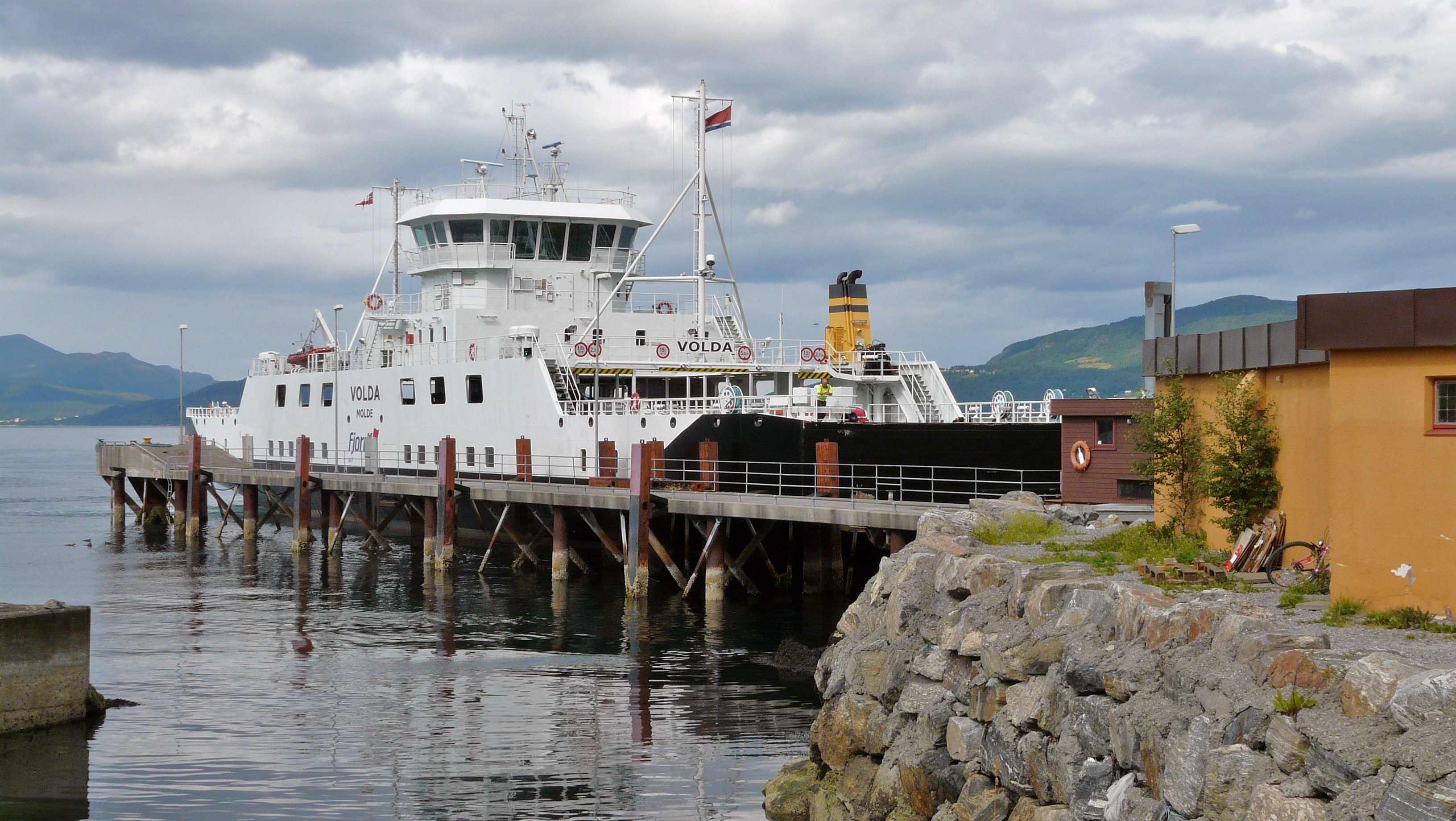 A ferry at a dock in Ørsneset in Sykkylven in 2008 August.